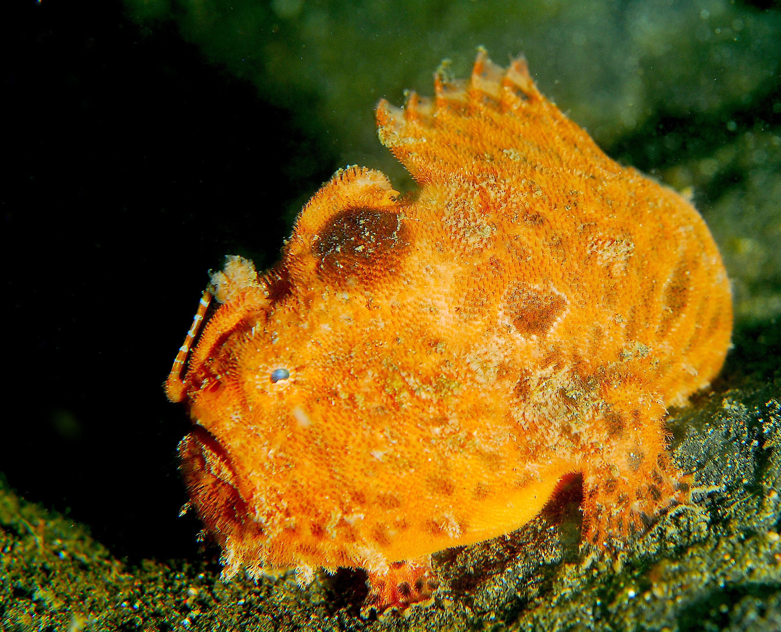 frogfish